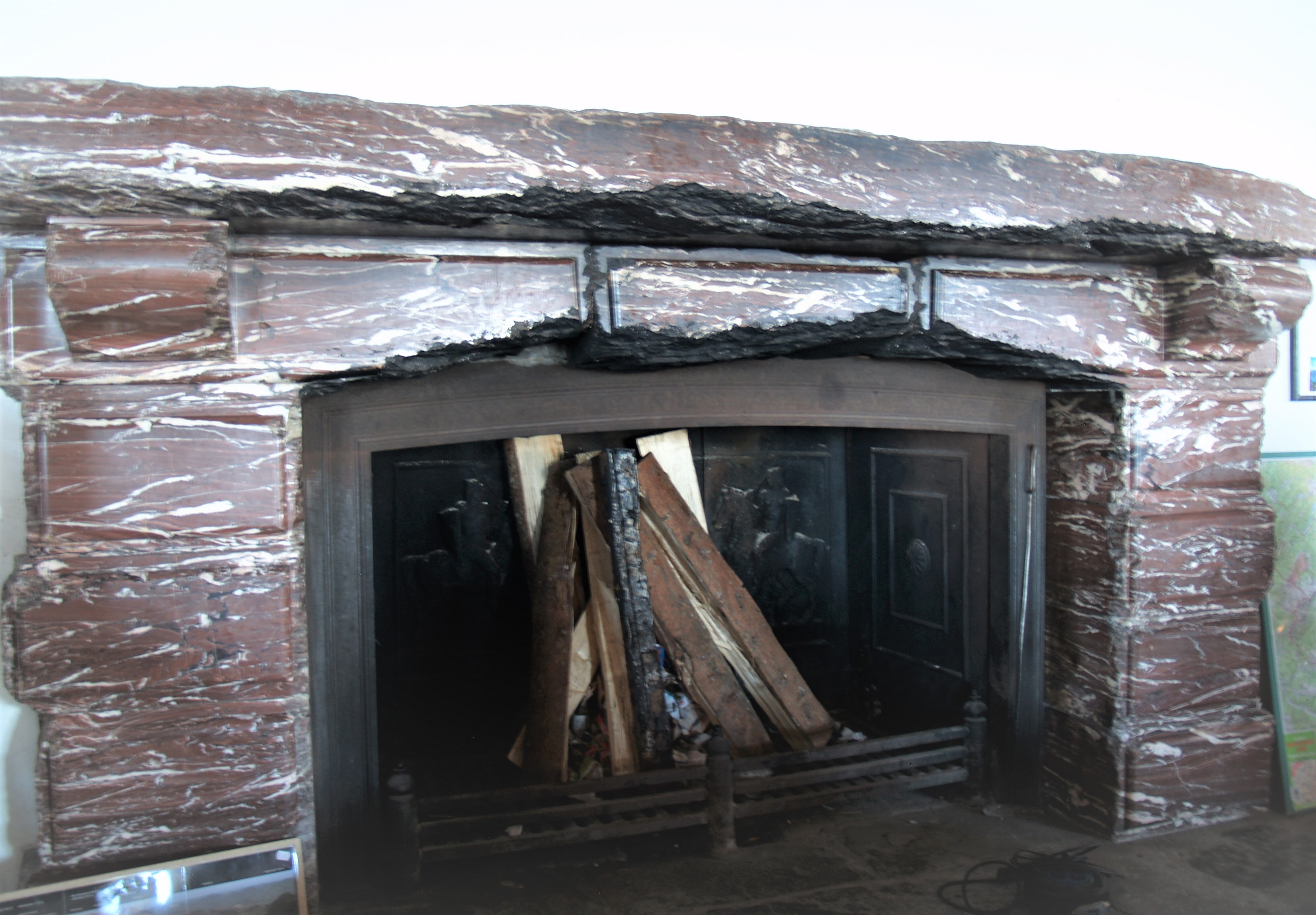 Kehlsteinhaus inside